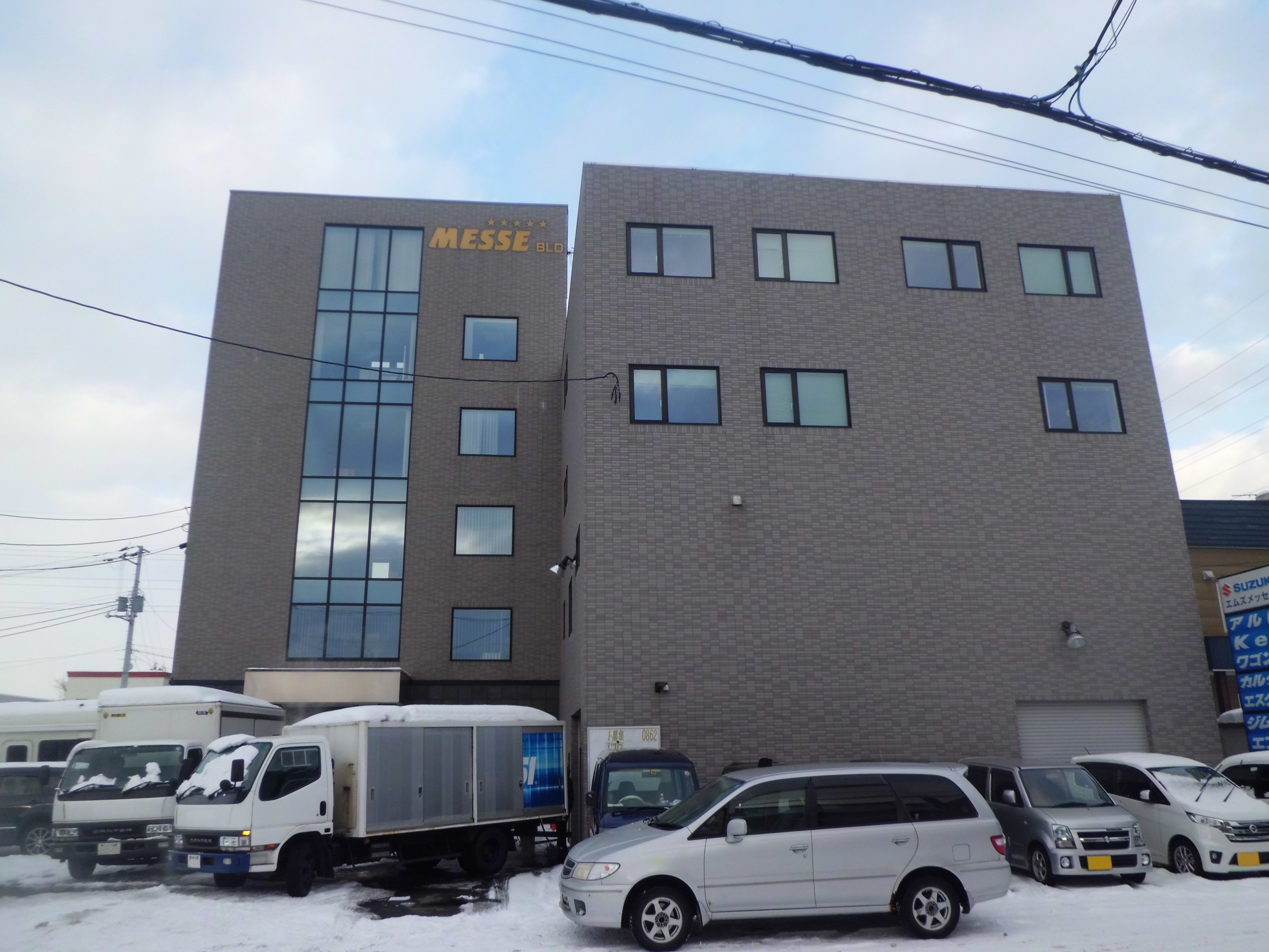 Messe Building, the main office of M's MESSE, in Hiraoka, Kiyota-ku, Sapporo city, Hokkaido, Japan.